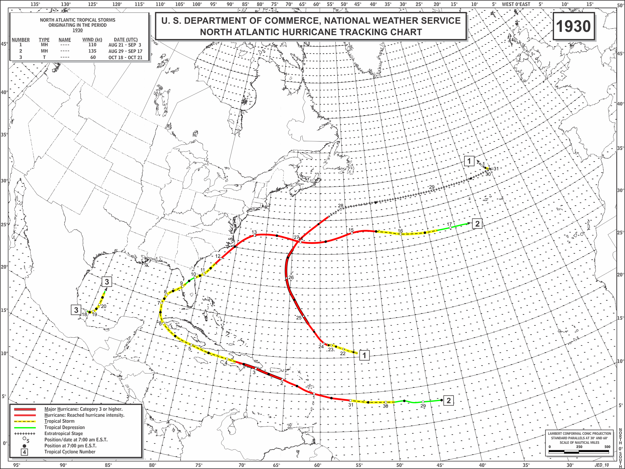 Season summary provided by NOAA of the 1930 Atlantic hurricane season.